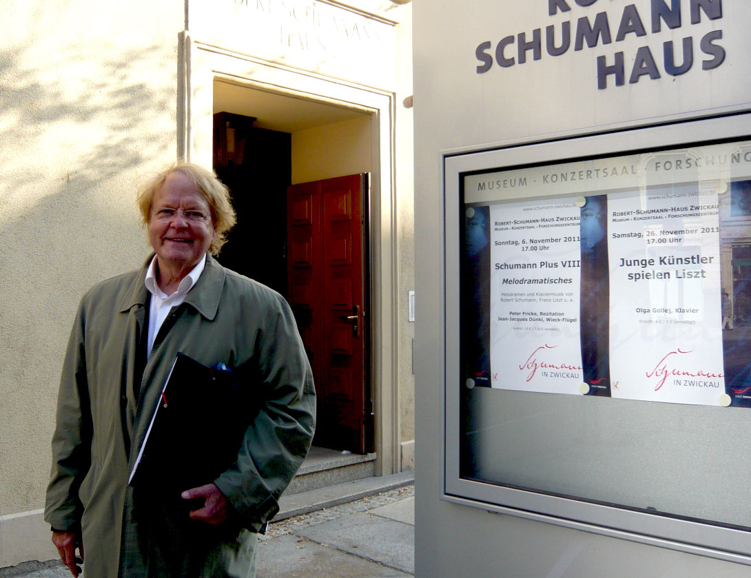 Peter Fricke in front of Robert Schumann House in Zwickau